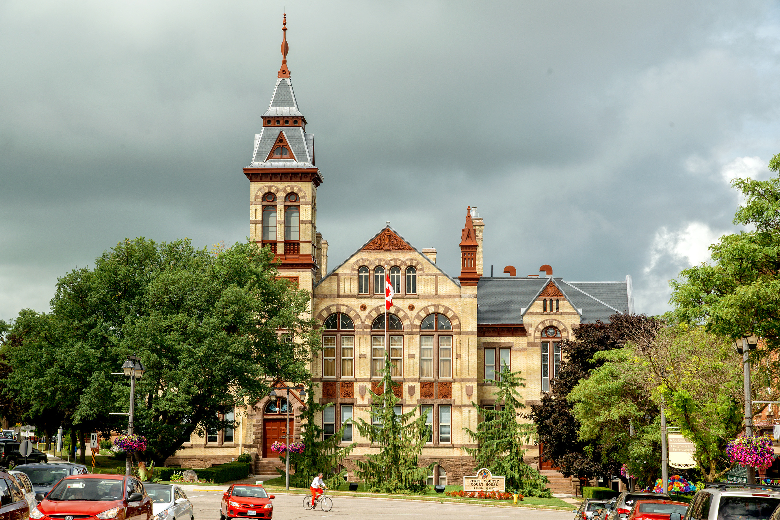 Perth County Court House, Stratford, Ontario